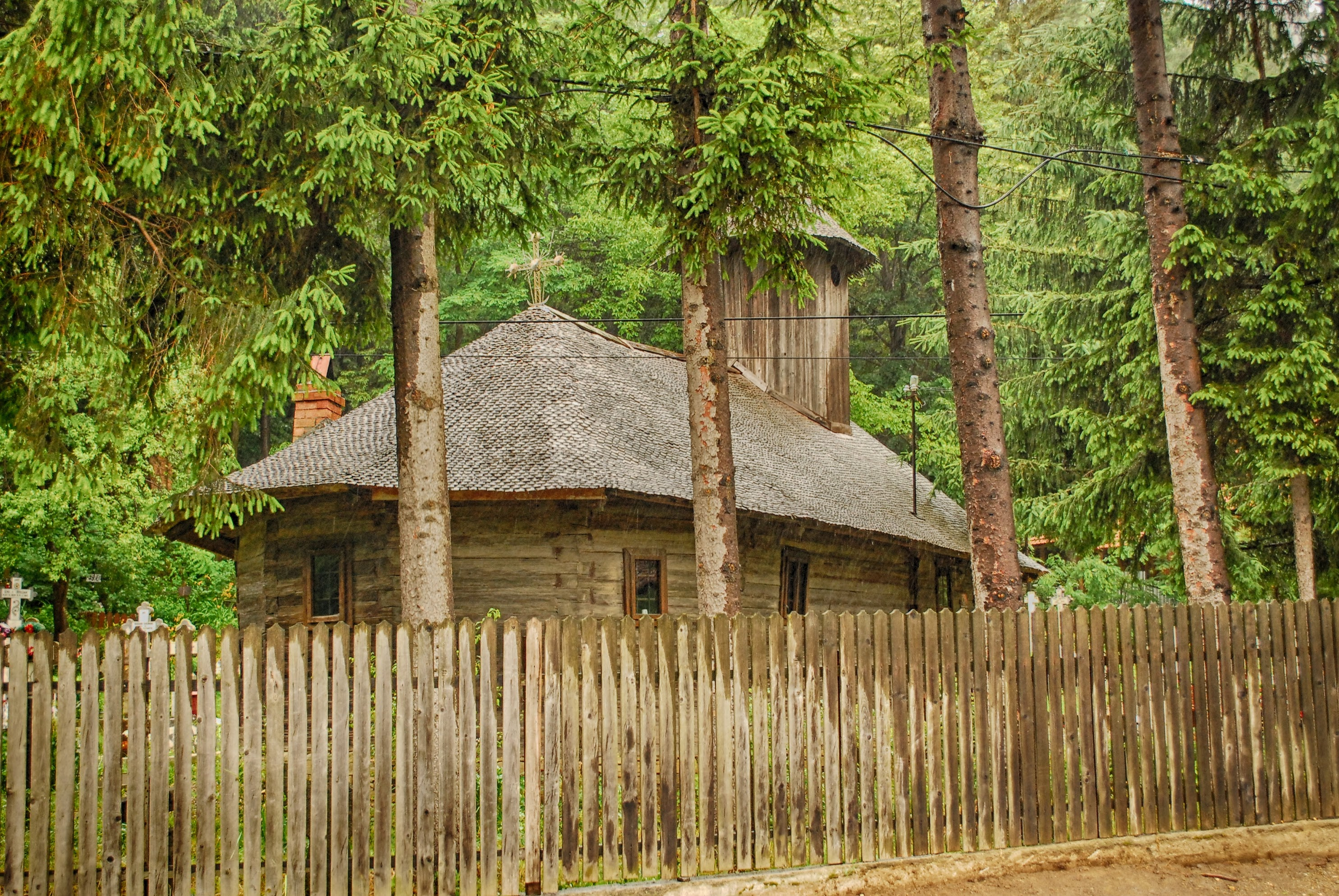 Holy Emperors Constantine and Helena church in Lunca Priporului, Nehoiu town, Buzău County, RomaniaRomână: Biserica „Sfinții Împărați Constantin și Elena” din Lunca Priporului, orașul Nehoiu, județul Buzău, România